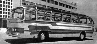 Biamax R514 (1961 model) coach, photographed outside company facilities.